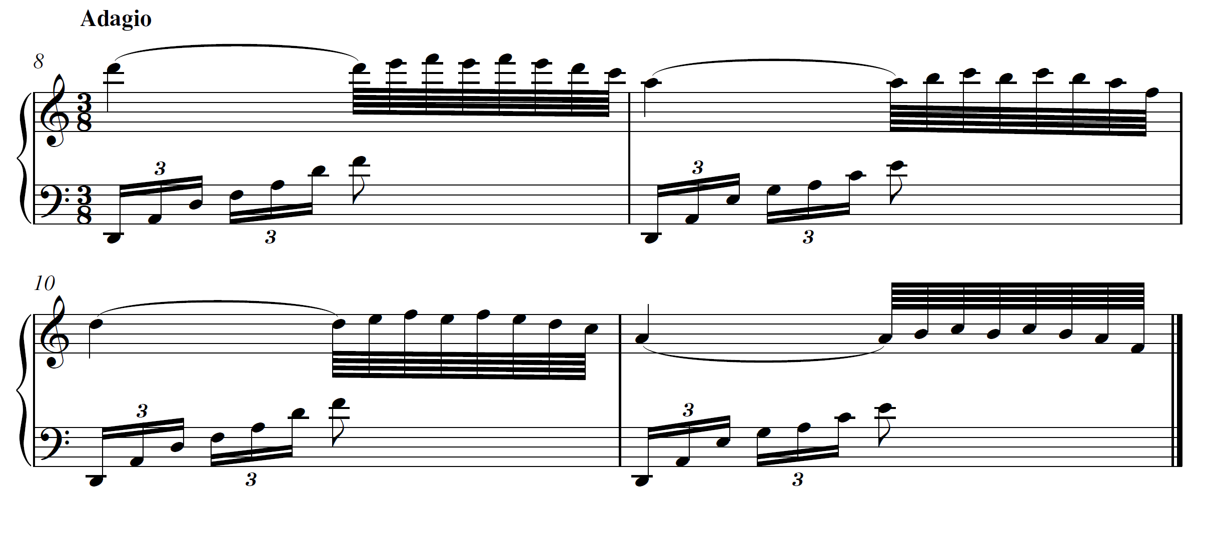 The main piano theme of the second movement of Grieg's Piano Concerto in A minor, Op. 16.